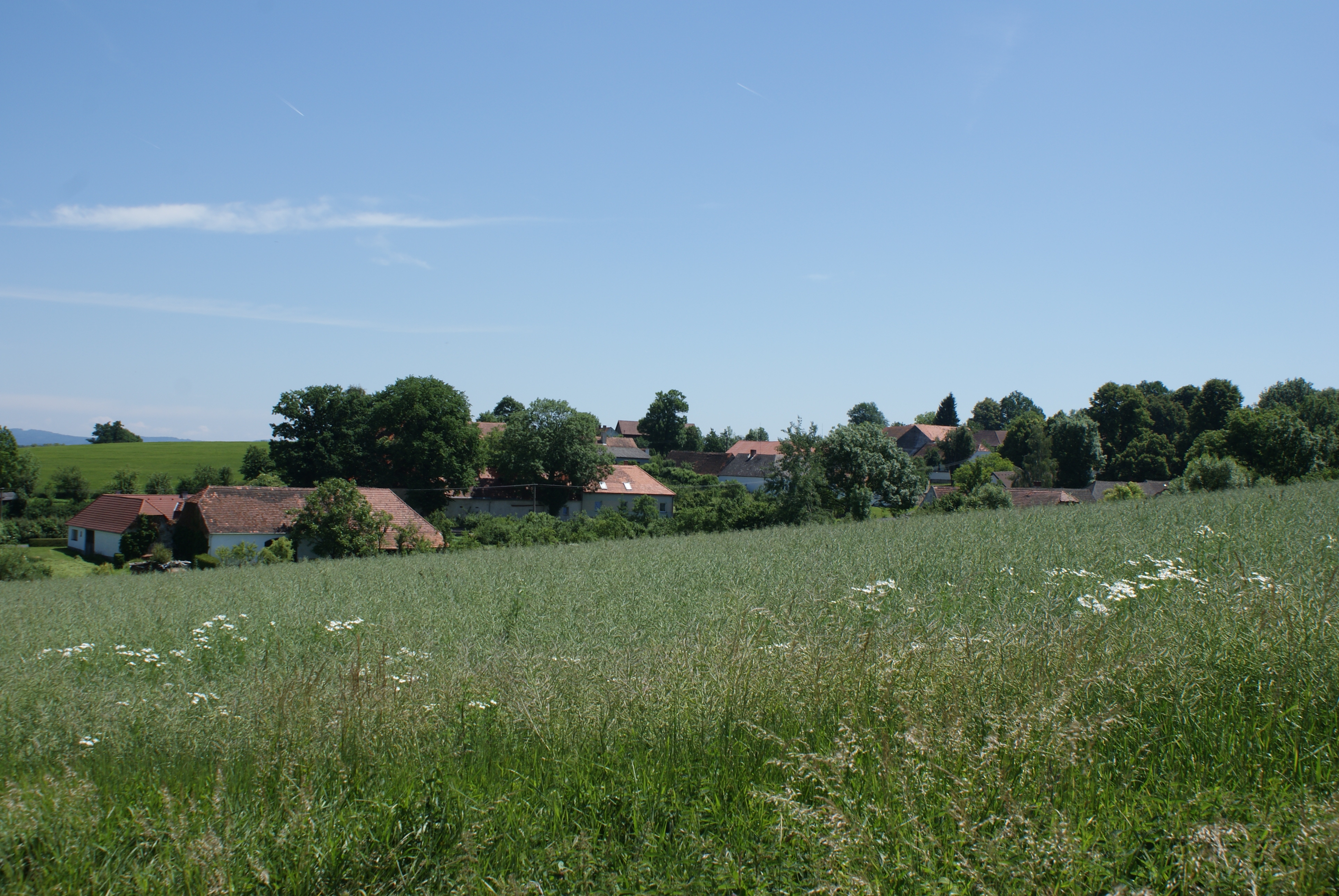 Sedlíkovice, a village in Strakonice district, Czech Republic, view from the southwest.